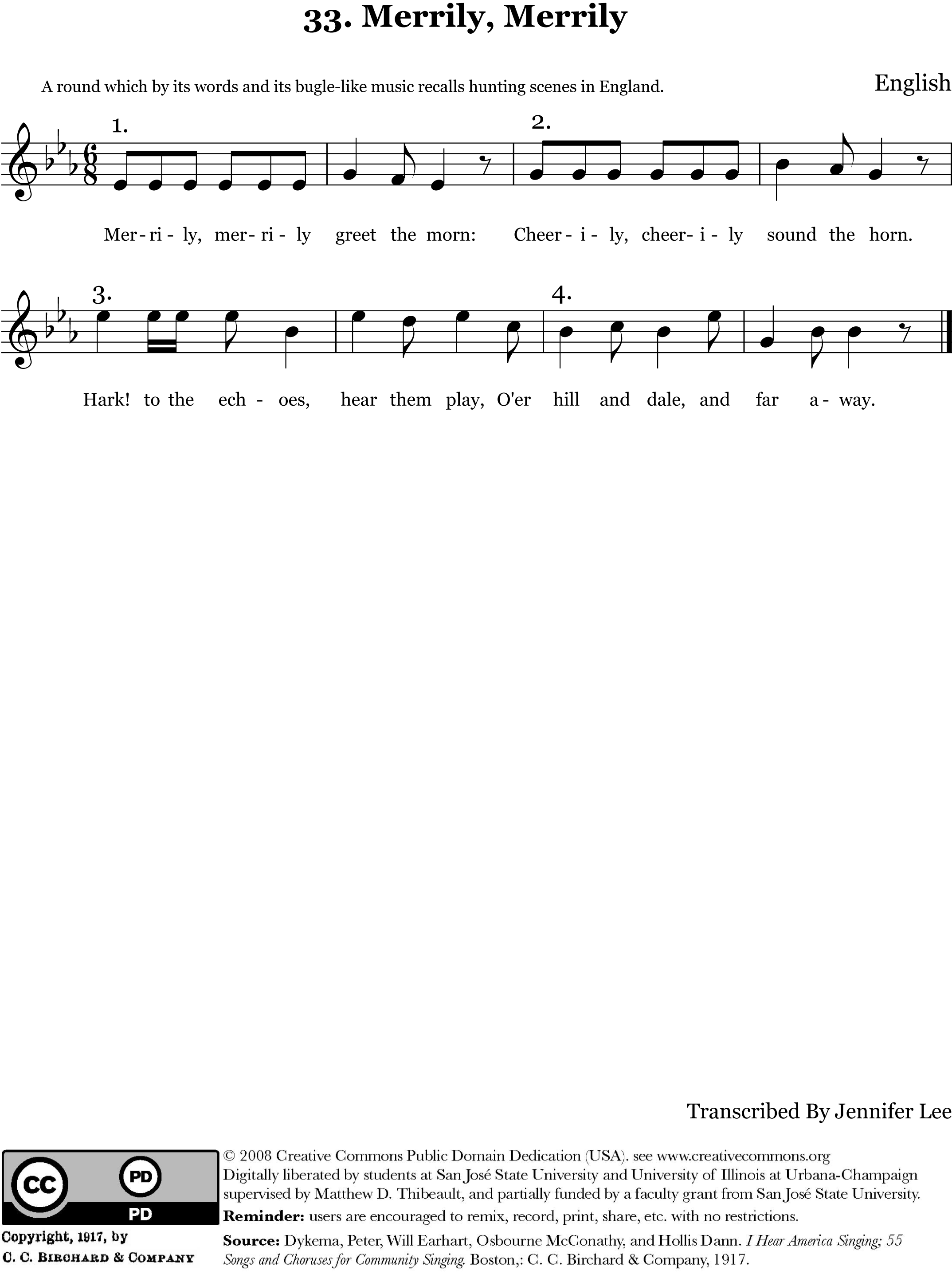 Merrily Merrily